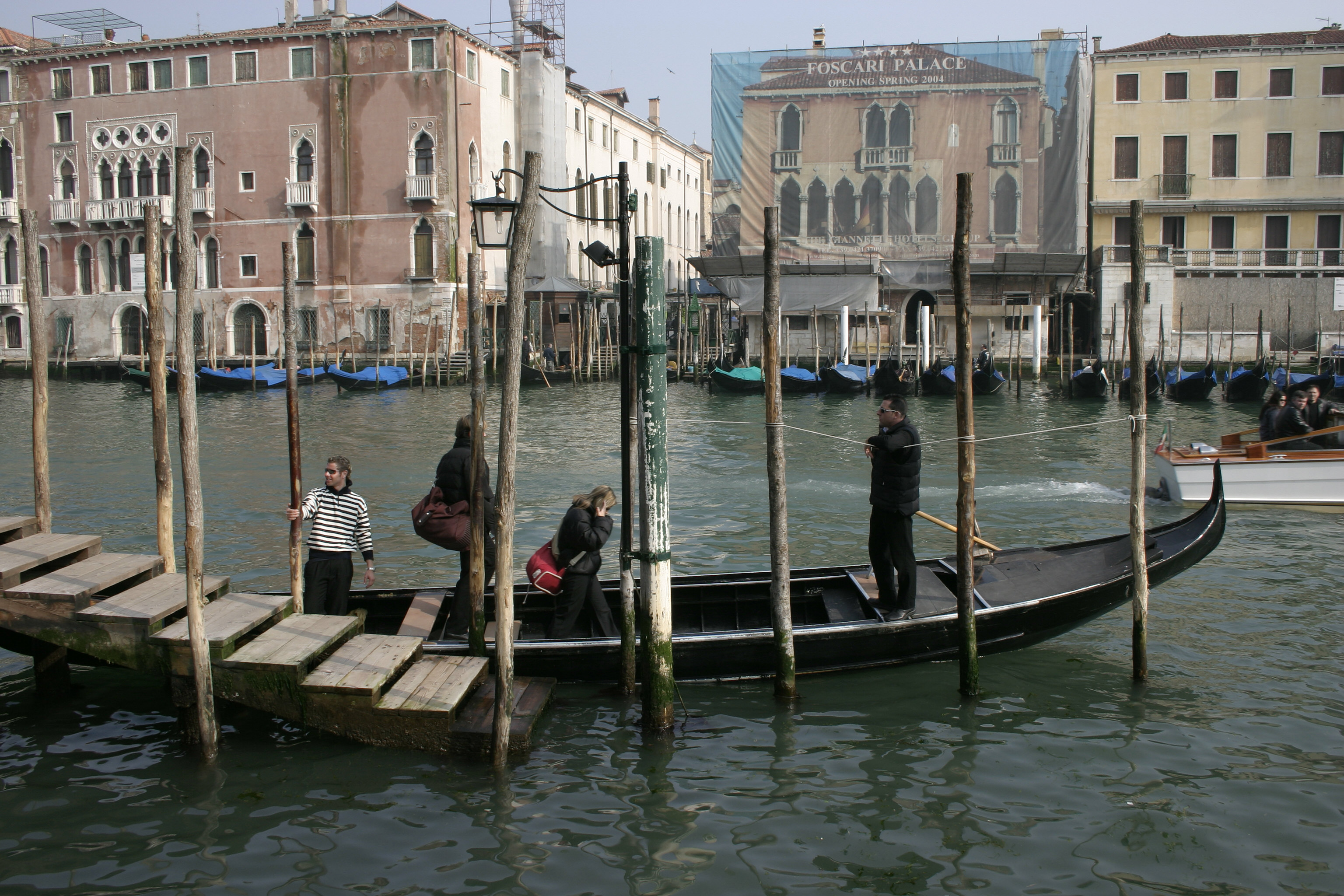 Venice - Grand Canal